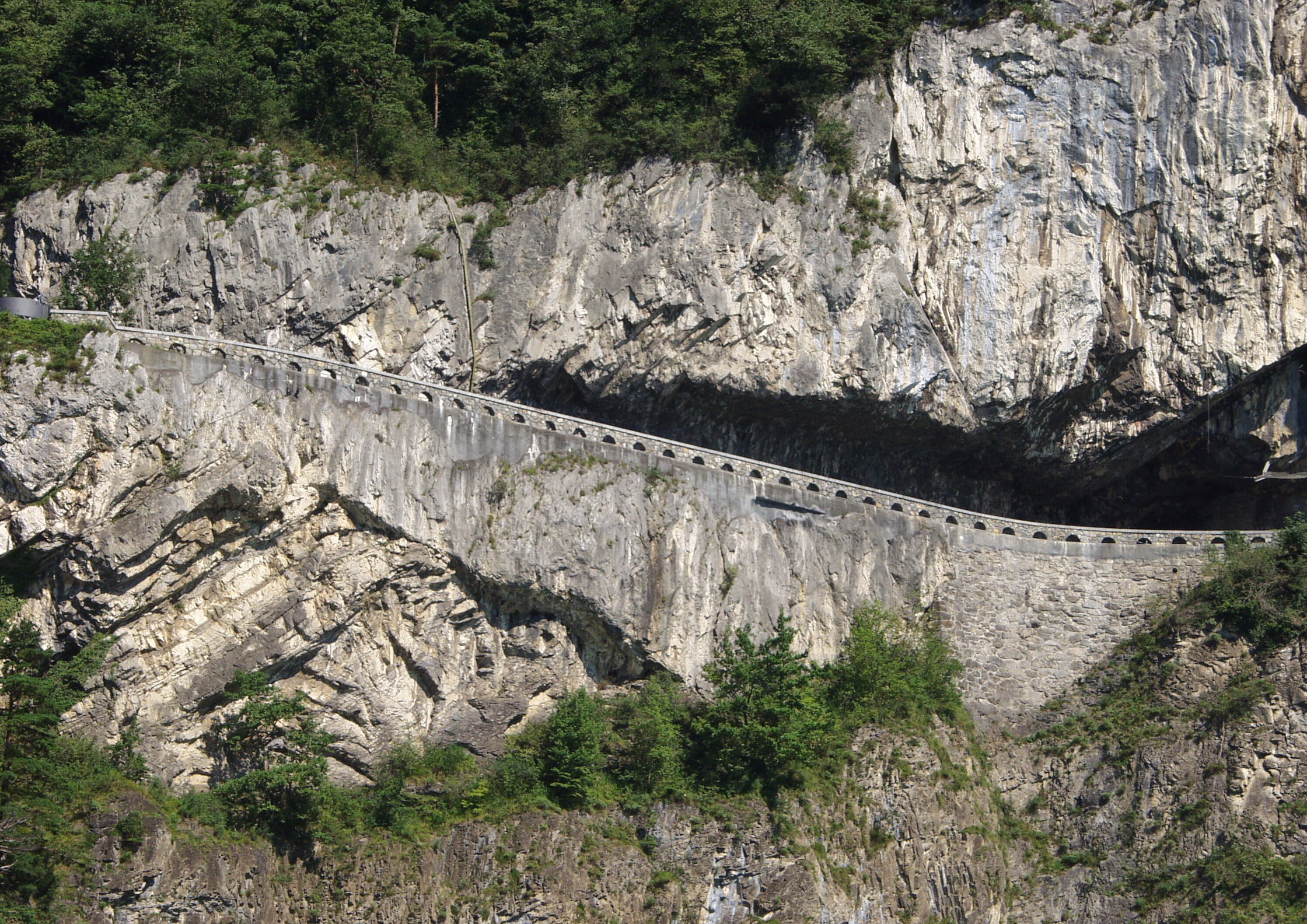 Axenstrasse, connection between Brunnen and Flüelen, along the eastern shore of Lake Uri in the canton of Uri. It leads through the village of Sisikon. The two-lane main road leads over bridges, through tunnels and rockfall galleries.